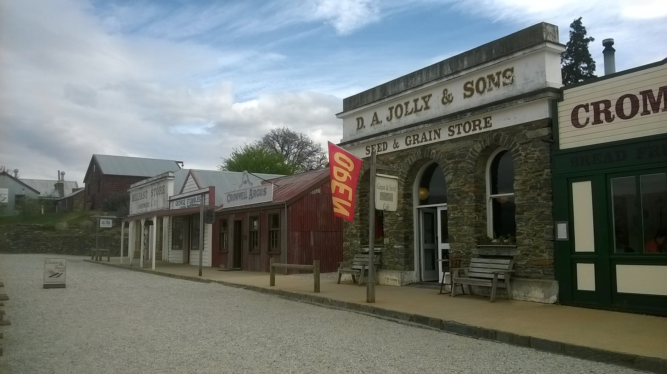 Historic old Cromwell town's main street